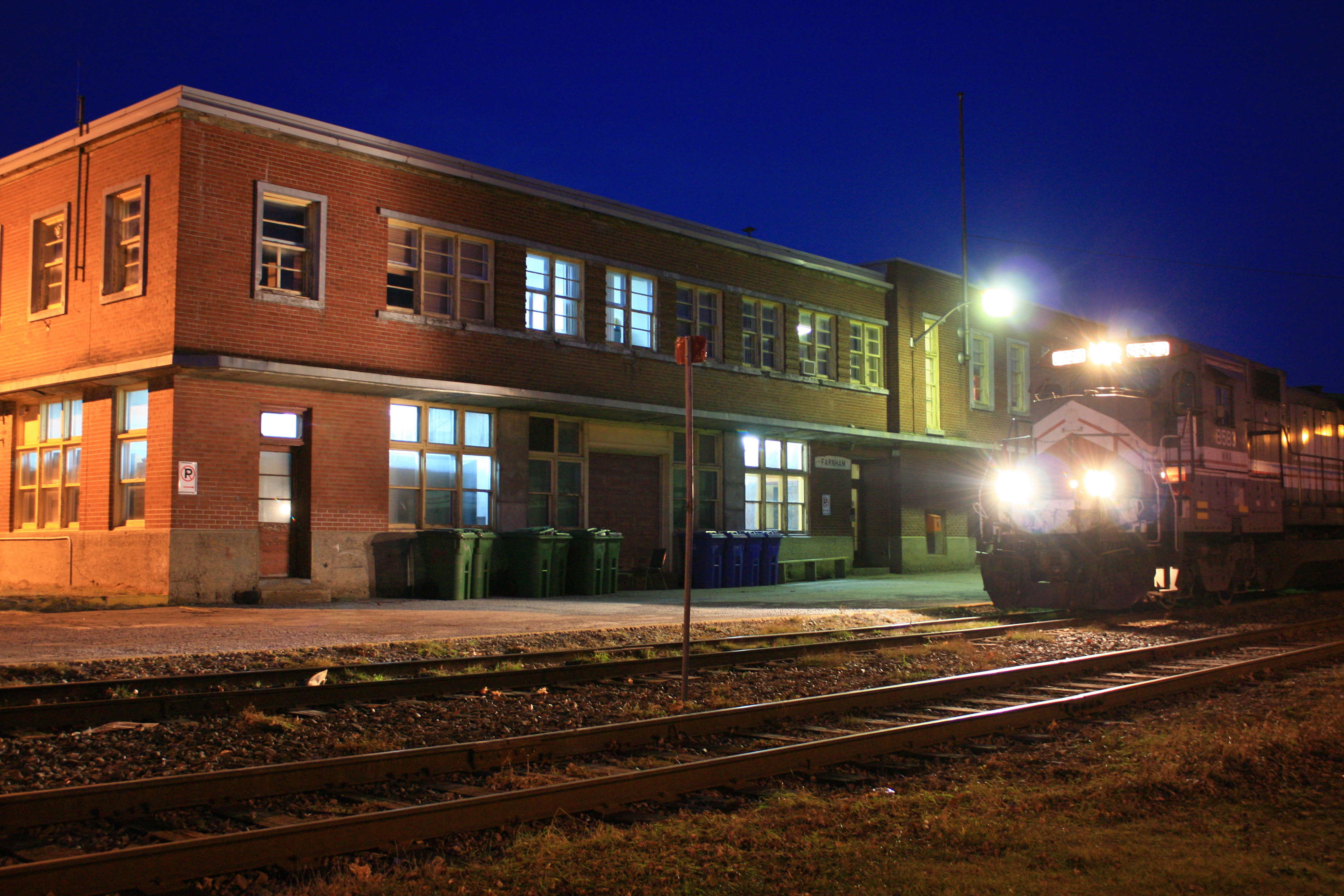 Montreal, Maine & Atlantic GE B39-8E (Dash 8-39BE), #8583 at Farnham, Quebec